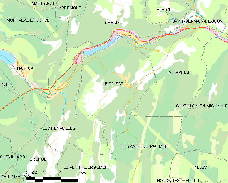 Map of French commune: Le Poizat Map commune FR insee code 01300.png